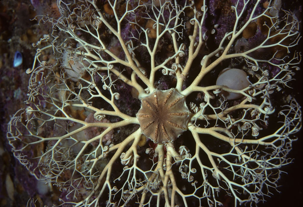 Basket star (Gorgonocephalidae), Newfoundland.